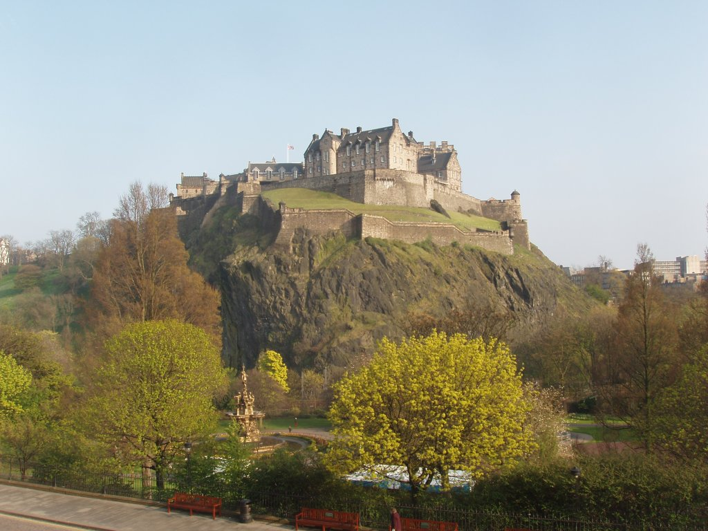 Taken from Princes St.